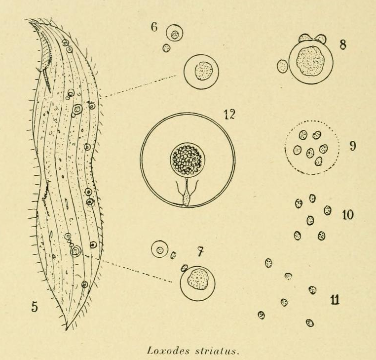 Drawing of the ciliate Loxodes striatus by E Penard, excerpted from article "Le genre Loxodes" (1917) Revue suisse de zoologie vol. 25 pg. 474